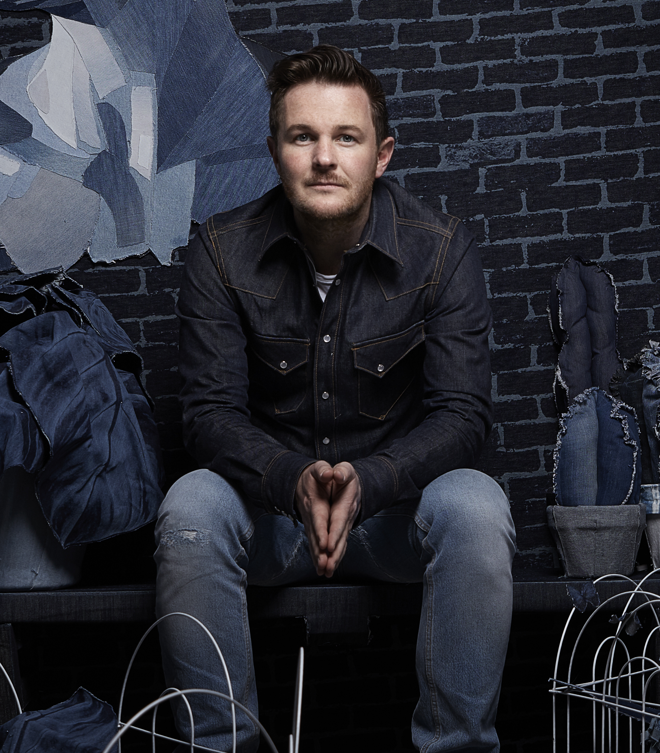 portrait of Ian Berry by Brad Rankin